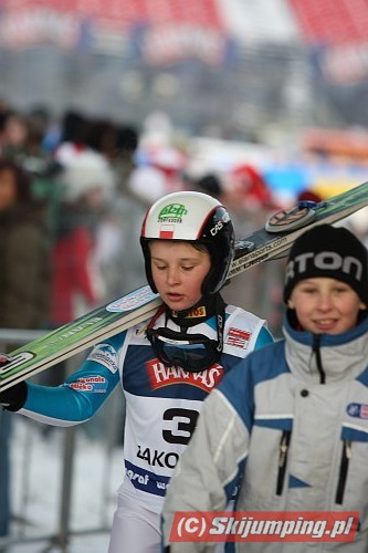 FIS Ski Jumping World Cup in Zakopane, 2008. Thursday trainings: Klemens Murańka